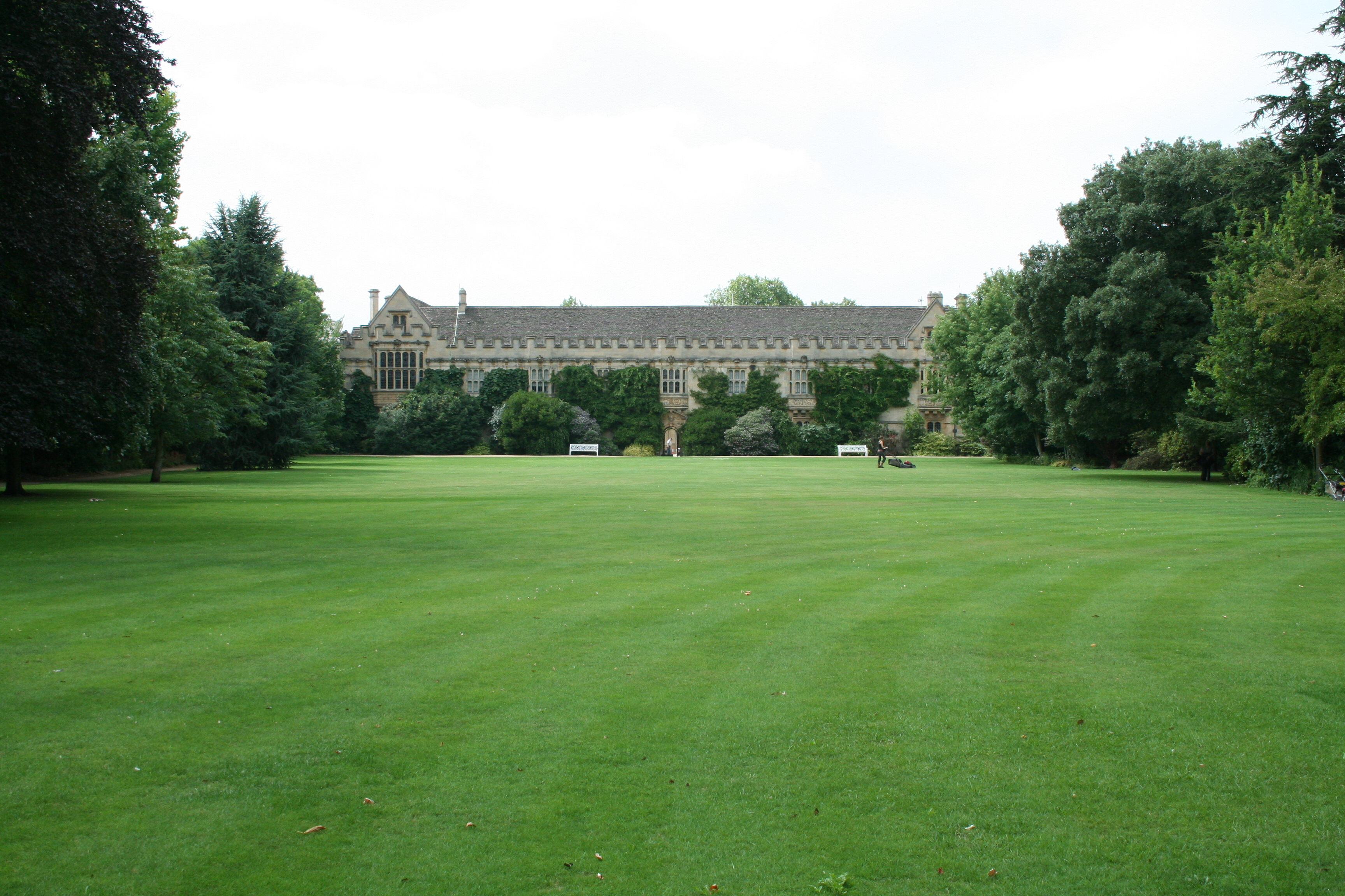 St John's College, Oxford : The Garden behind the College.